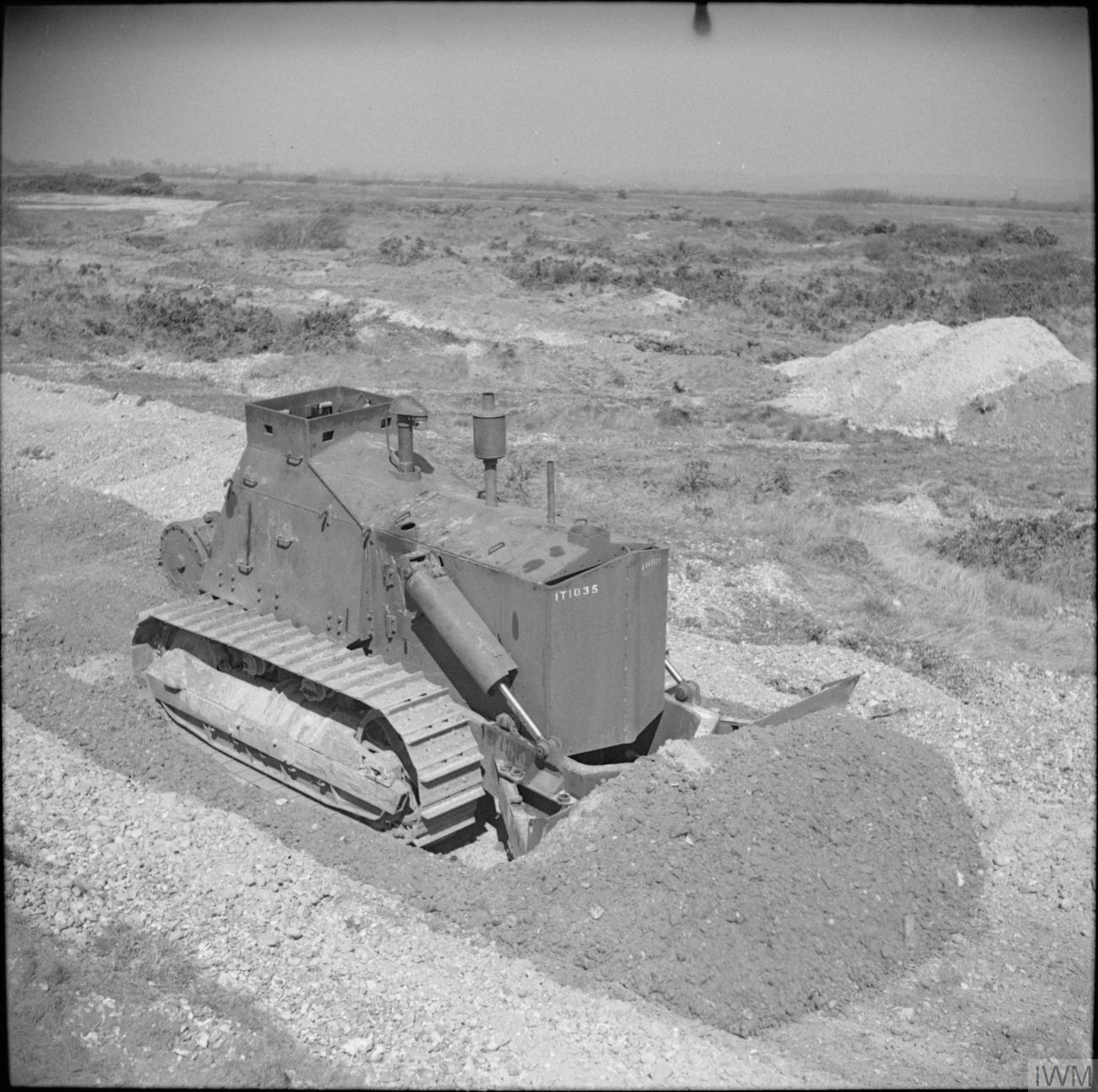 The British Army in the United Kingdom 1939-45 D-7 armoured bulldozer, 3rd Division, 1 May 1944.